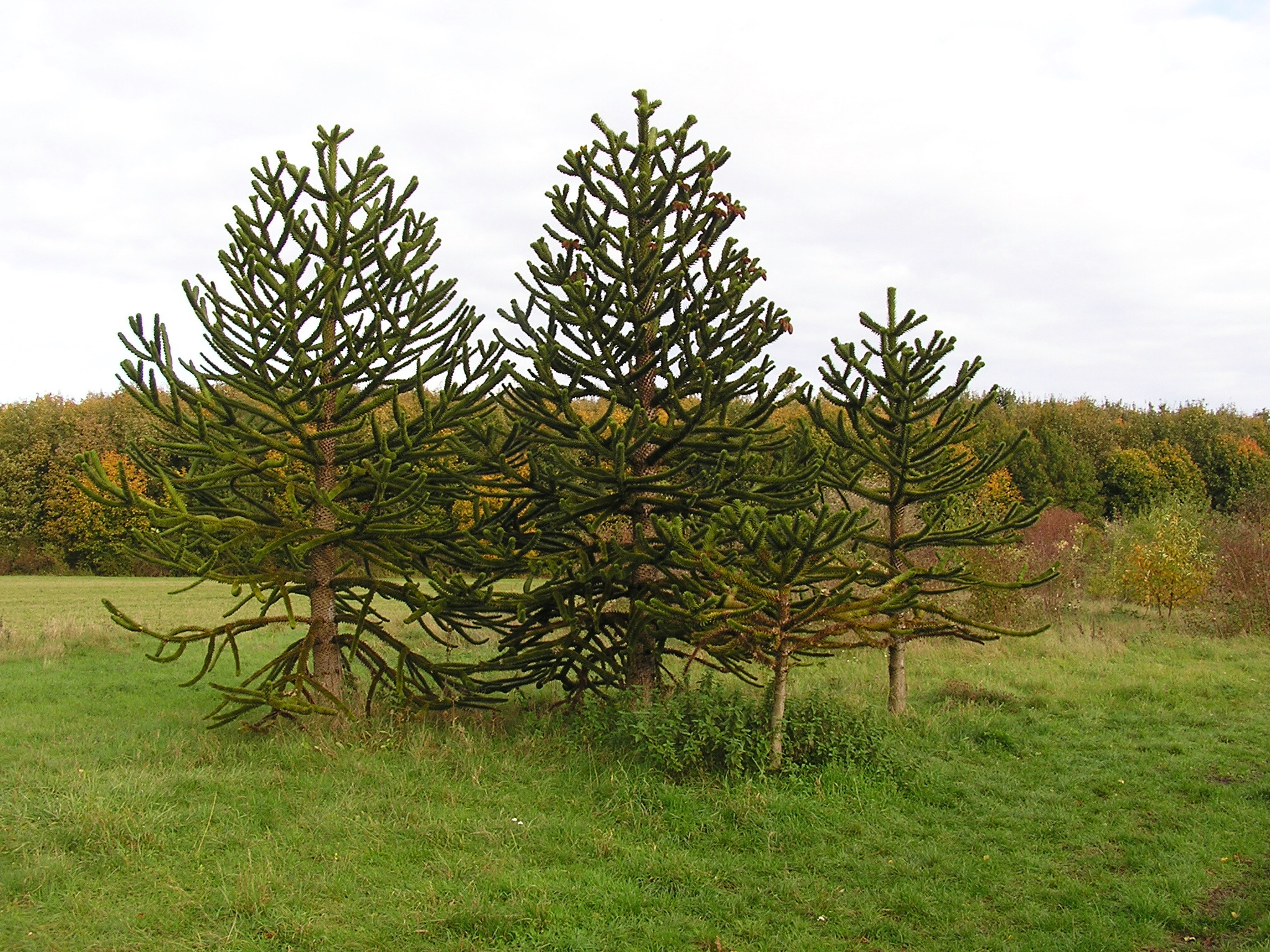 Monkey puzzles in the Arboretum Main-Taunus